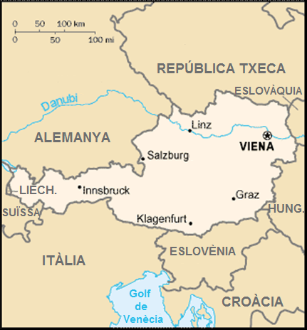 Map of Austria in Catalan